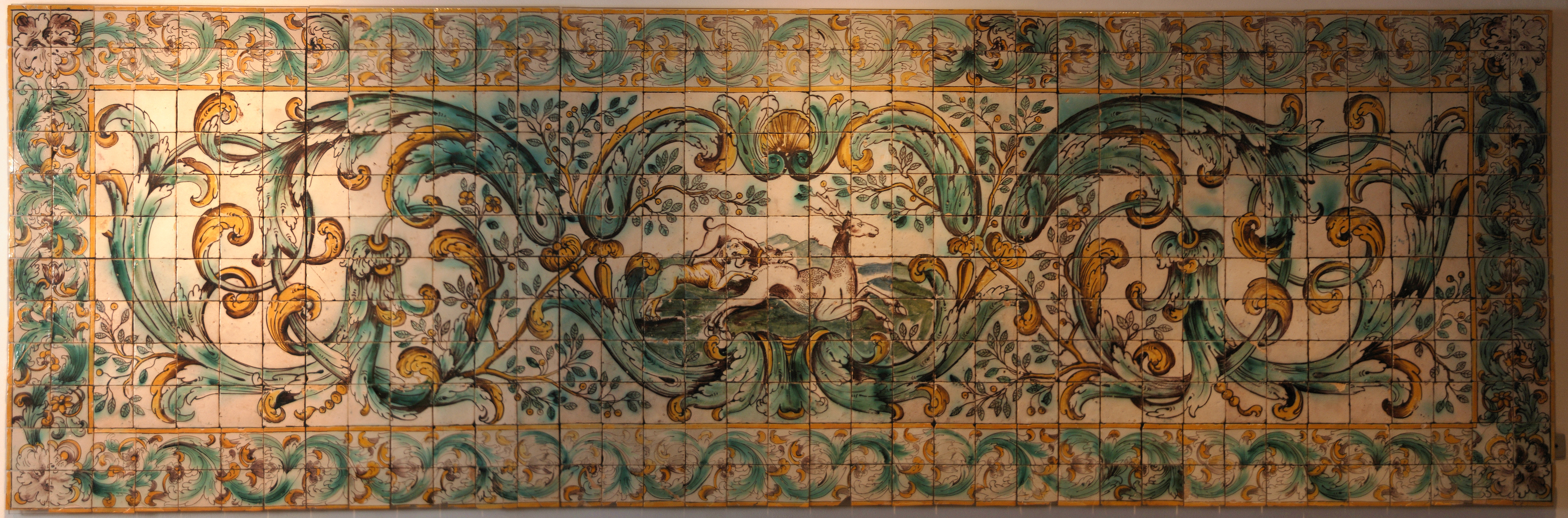 Panel of glazed tiles (azulejos) representing a hunting scene, c. 1680 Museu Nacional do Azulejo, Lisbon, Portugal.